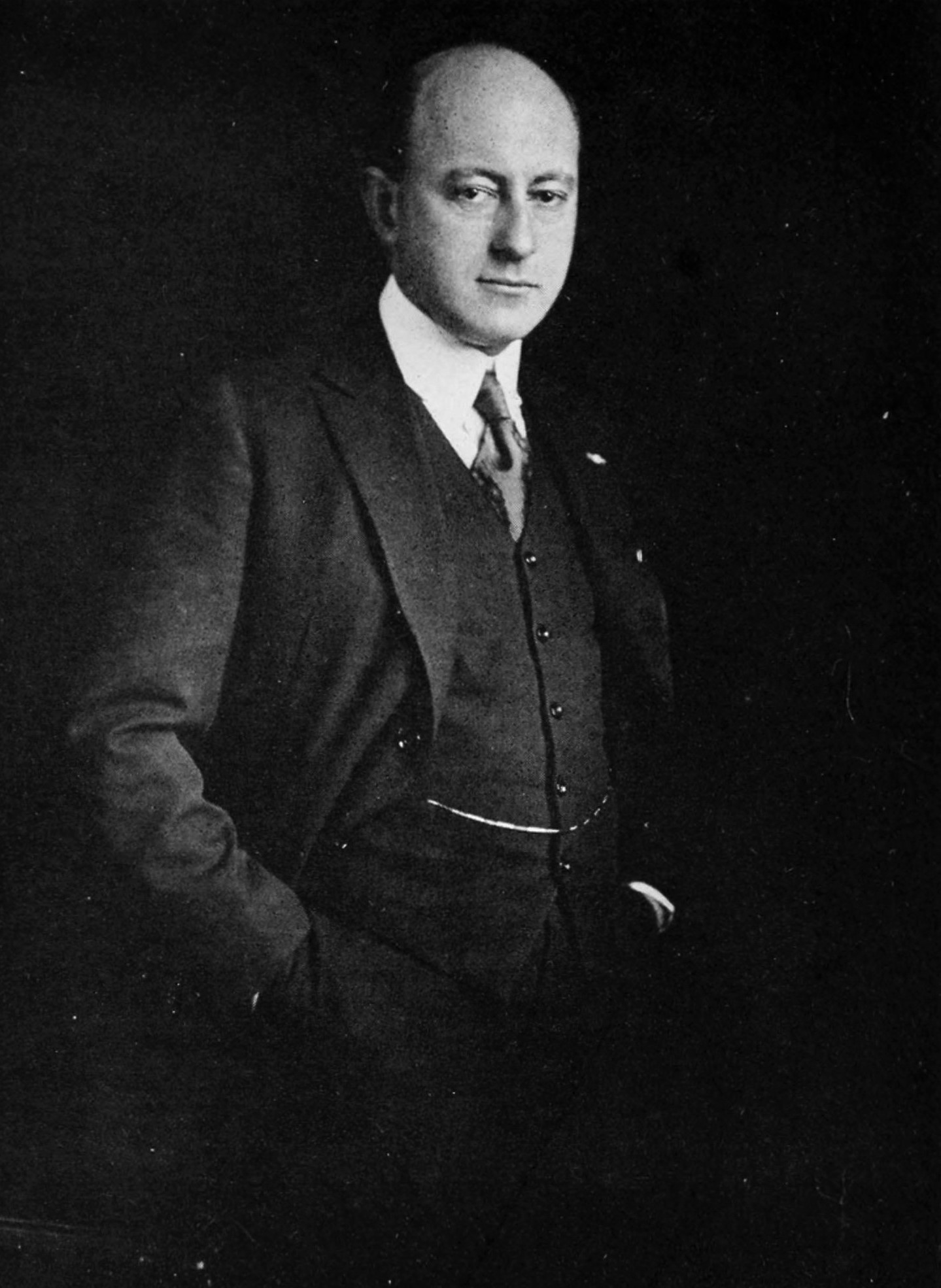 Who's Who on the Screen, 1920